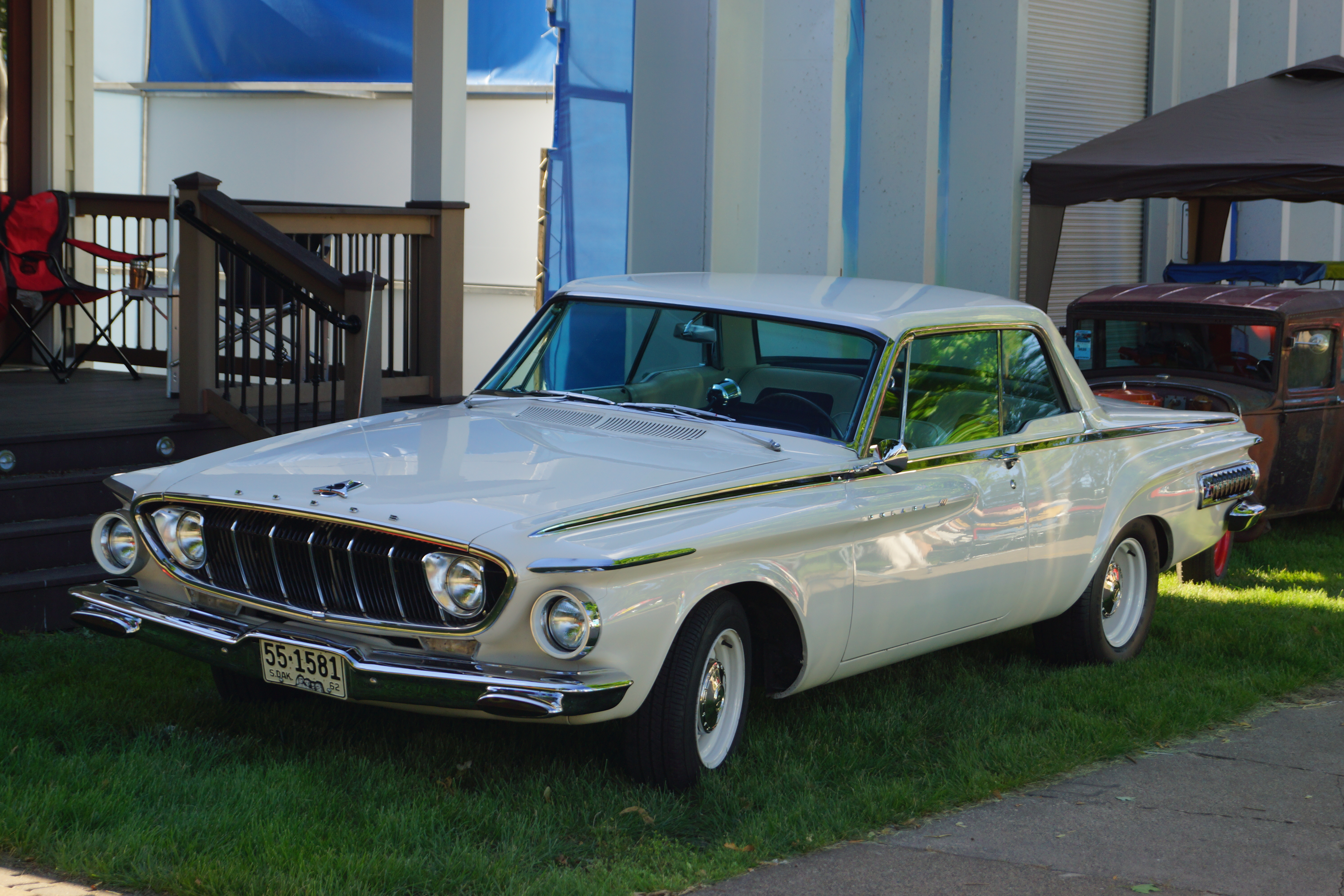 Minnesota Street Rod Association (MSRA) “BACK TO THE 50′s” 44th Annual Car Show June 23-25, 2017 Minnesota State Fairgrounds St. Paul Minnesota Click here for previous "Back to the 50's" pictures.. Click here for more car pictures at my Flickr site. Or here for my Car Crazy Tumblr site. Or on Twitter @DVS1mn.